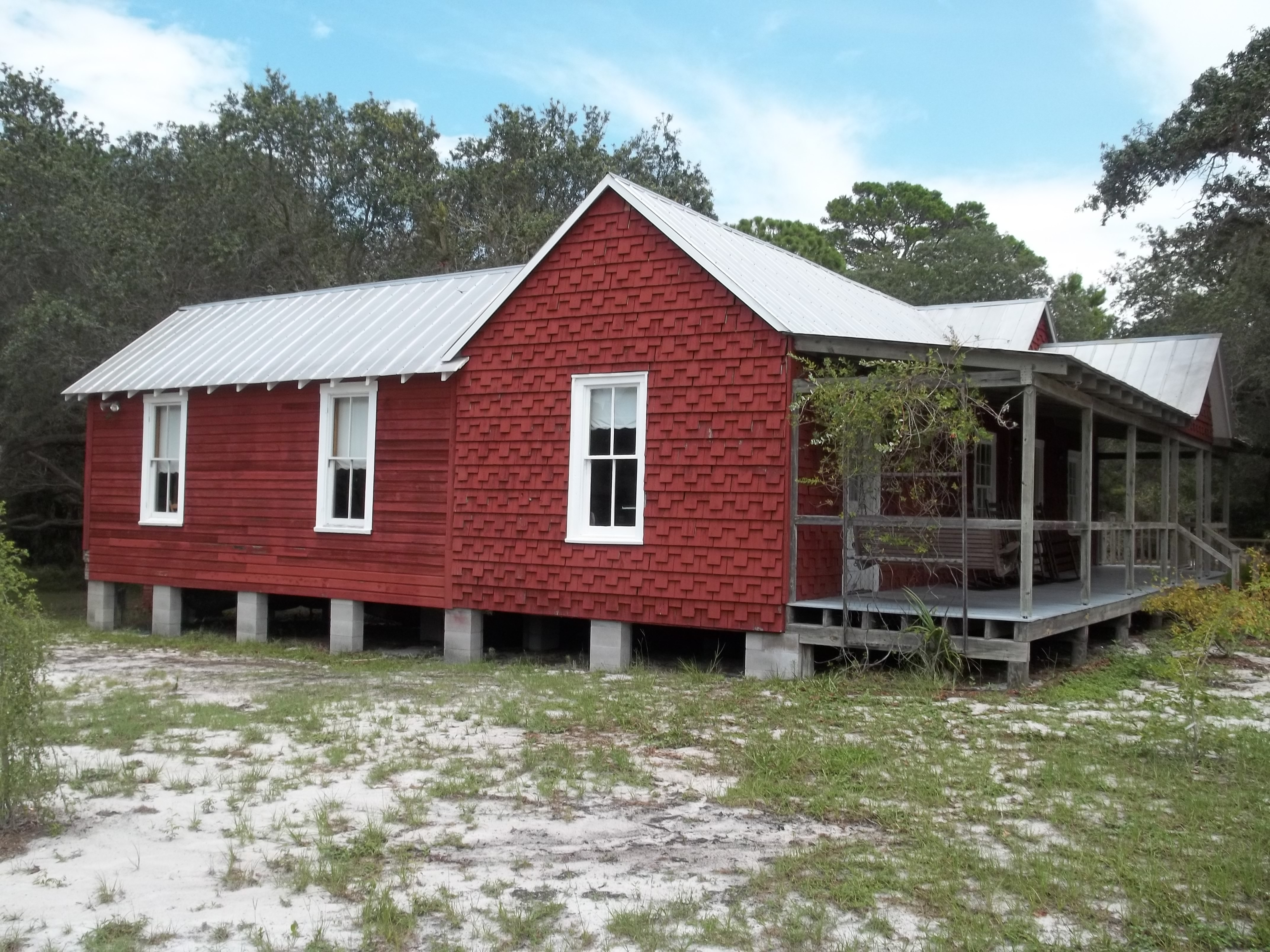 Cedar Key, Florida: Cedar Key Museum State Park: Whitman House